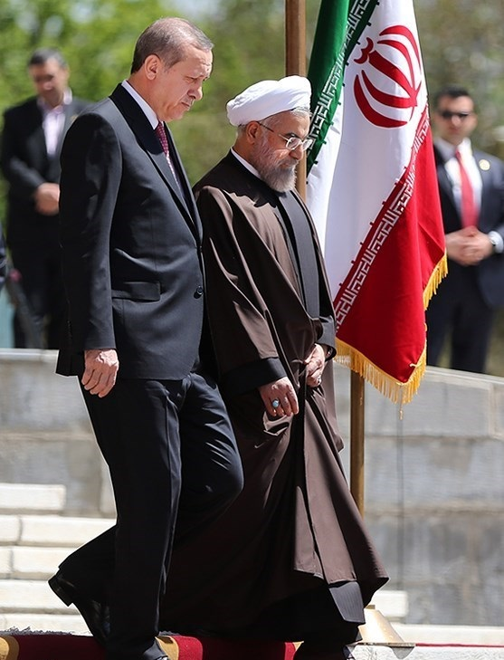 Iranian President Hassan Rouhani welcomes Turkish President Recep Tayyip Erdoğan in Saadabad Palace